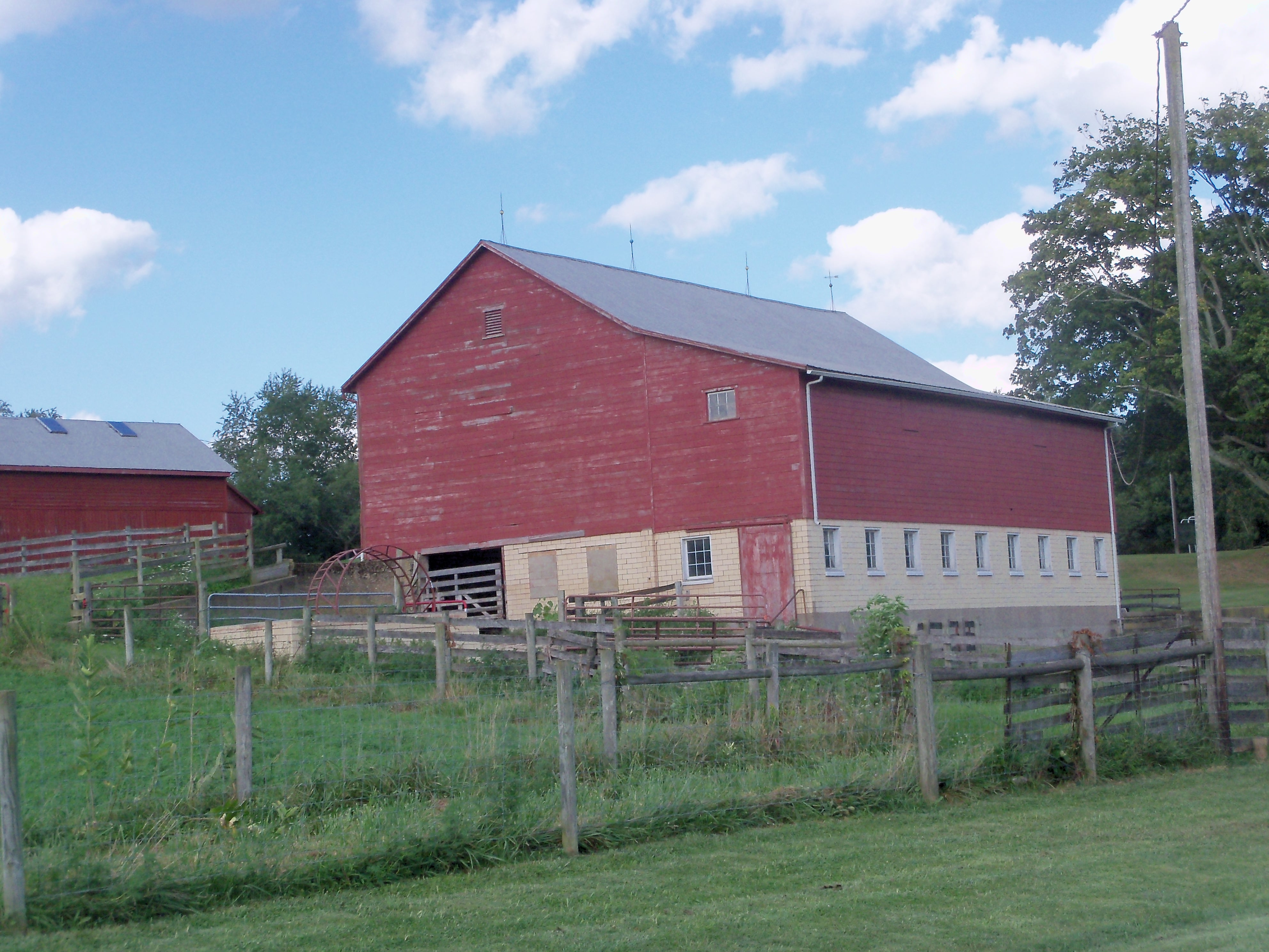 This barn sits next to Route 541 in Coshocton County, Ohio